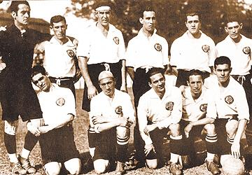 Team Champion Paulista in 1930